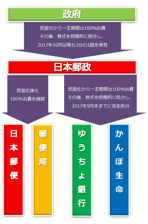 Image chart of Japan Post Group and Postal service privatization